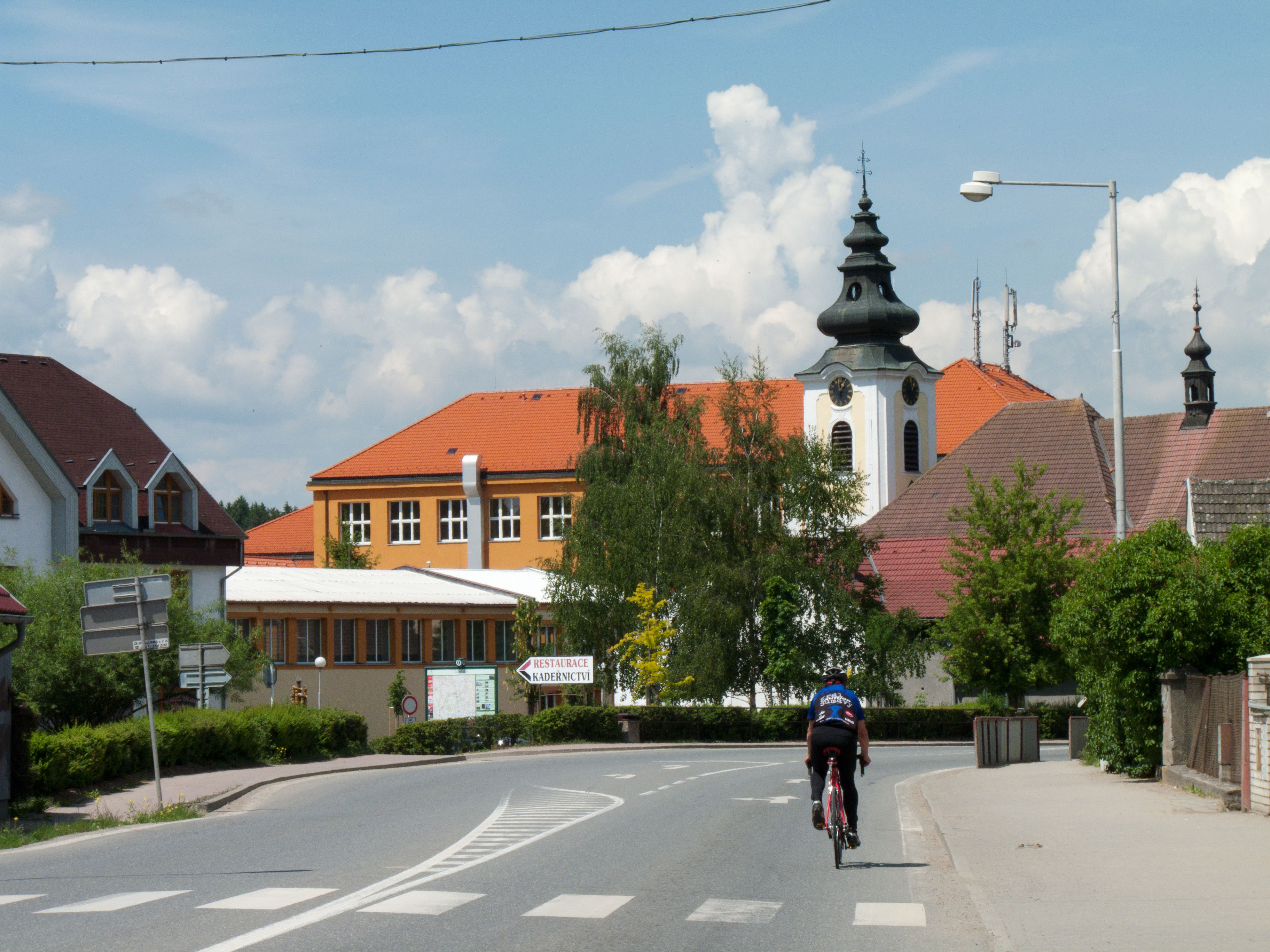 View towards the school and church in the town of Planá nad Lužnicí|Planá nad Lužnicí, Tábor District, Czech Republic when arriving from the south.